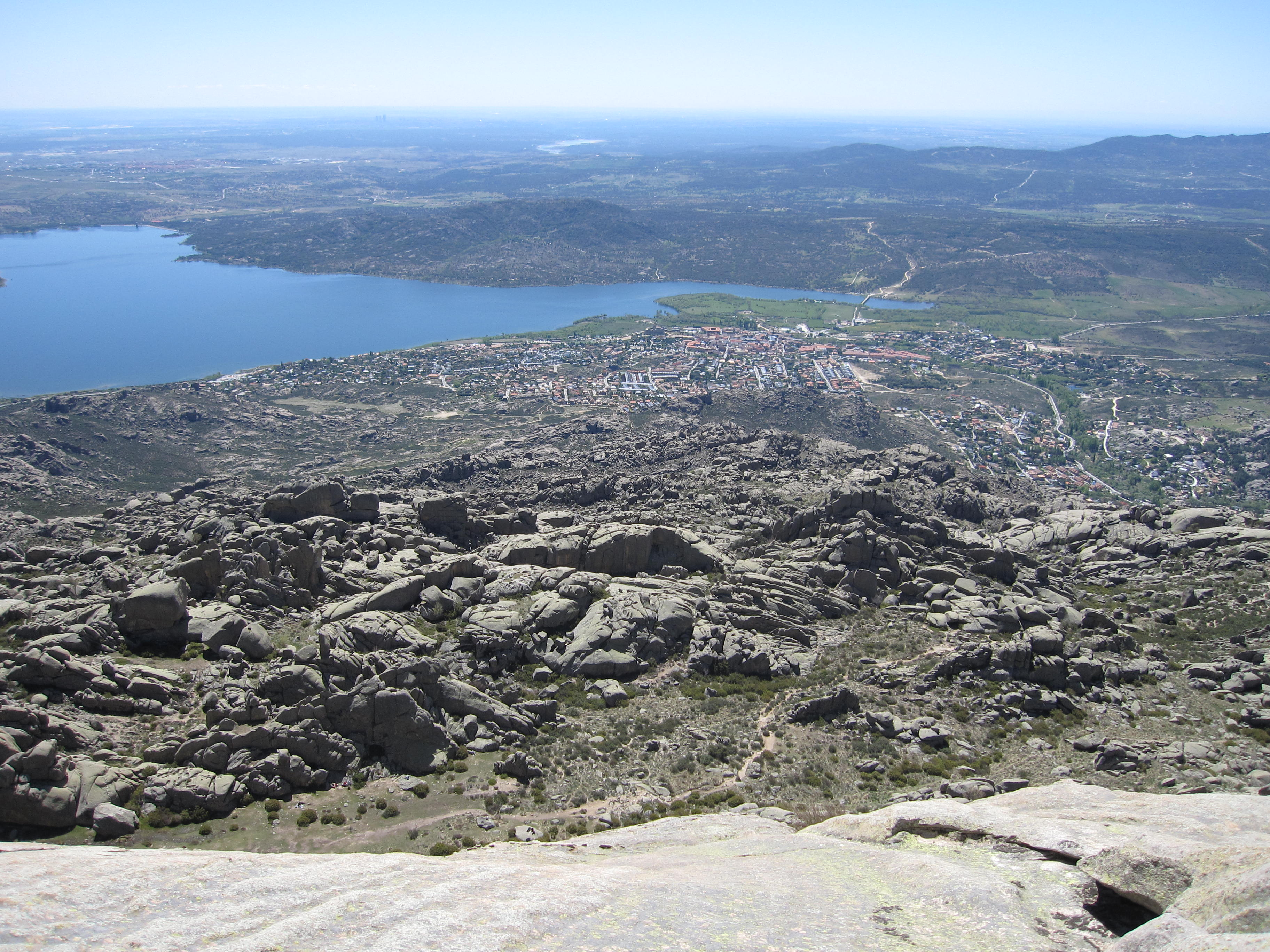 Manzanares el Real view from the summit of El Yelmo, La Pedriza (Guadarrama mountain range, central Spain).